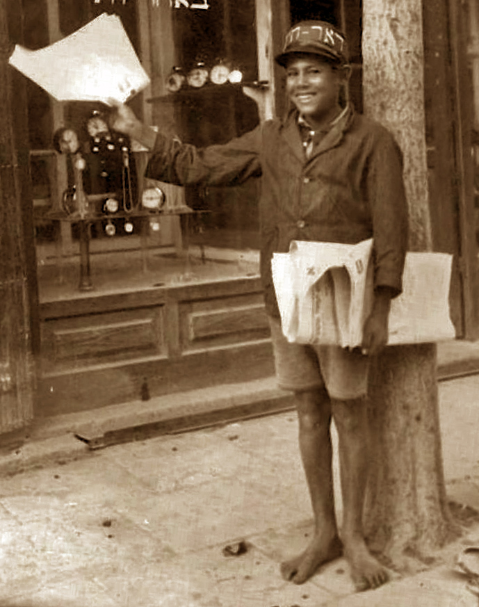 Boy selling Doar Hayom newspaper in Jerusalem (1920).